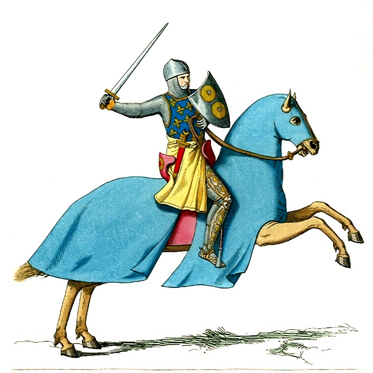 Illustration by Paul Mercuri from "Costumes Historiques" (Paris, ca.1850′s or 60’s). Scanned and archived at where it was marked as Public Domain.